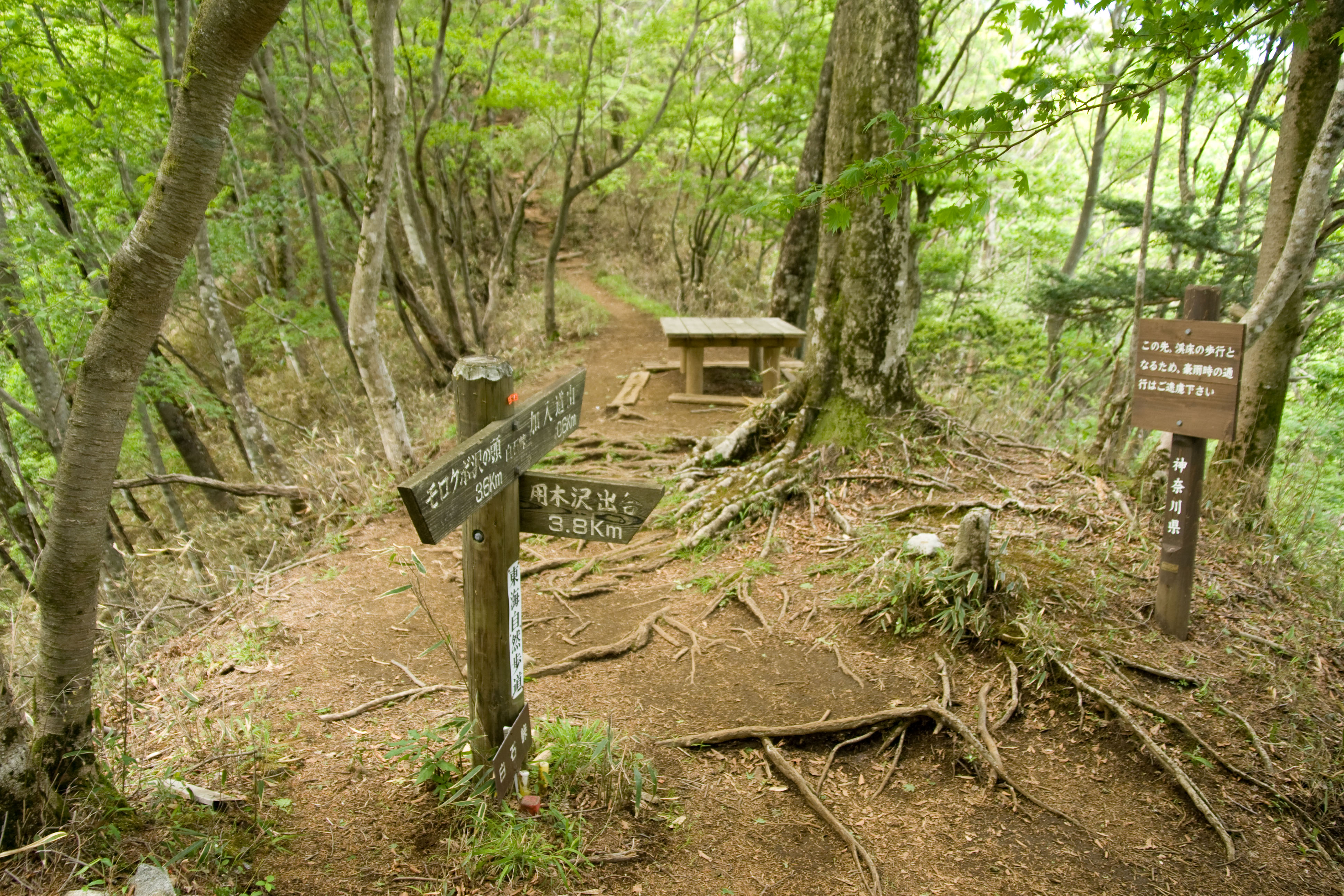 Shiraishi Pass, Tanzawa Mountains, Honshu, Japan.